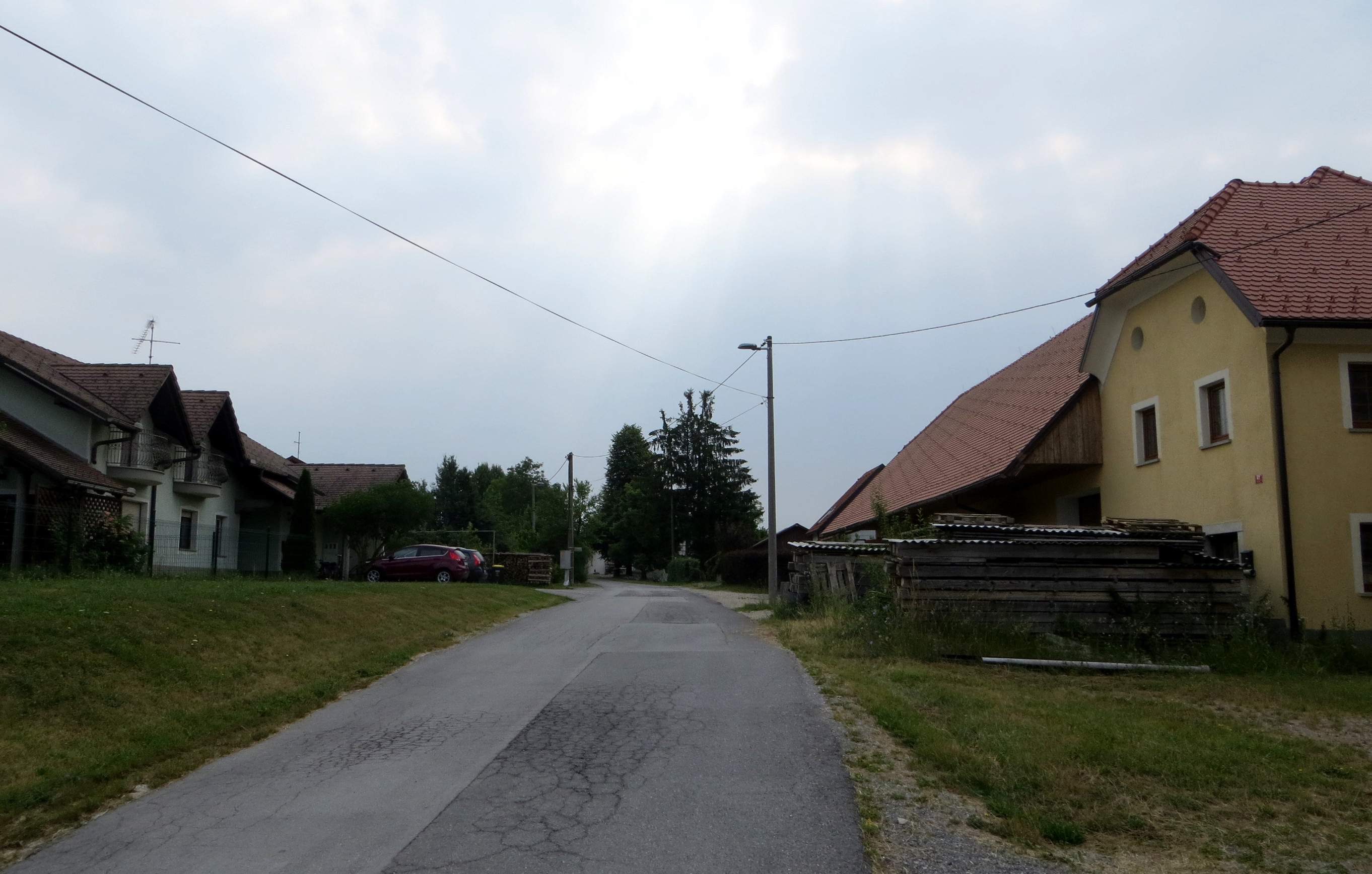 Dilce, Municipality of Postojna, Slovenia